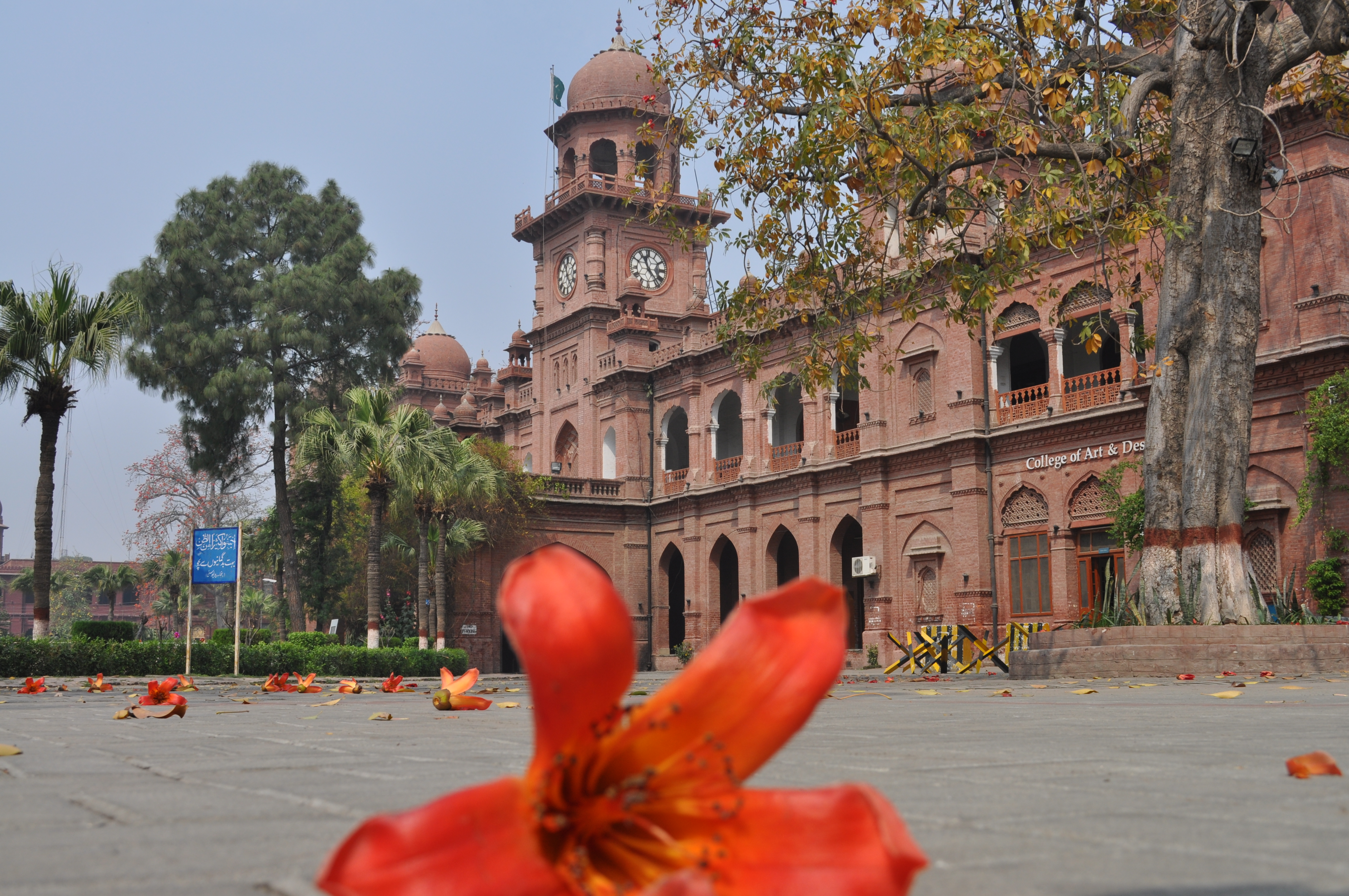 Punjab University This is a photo of a monument in Pakistan identified as the PB-P-70